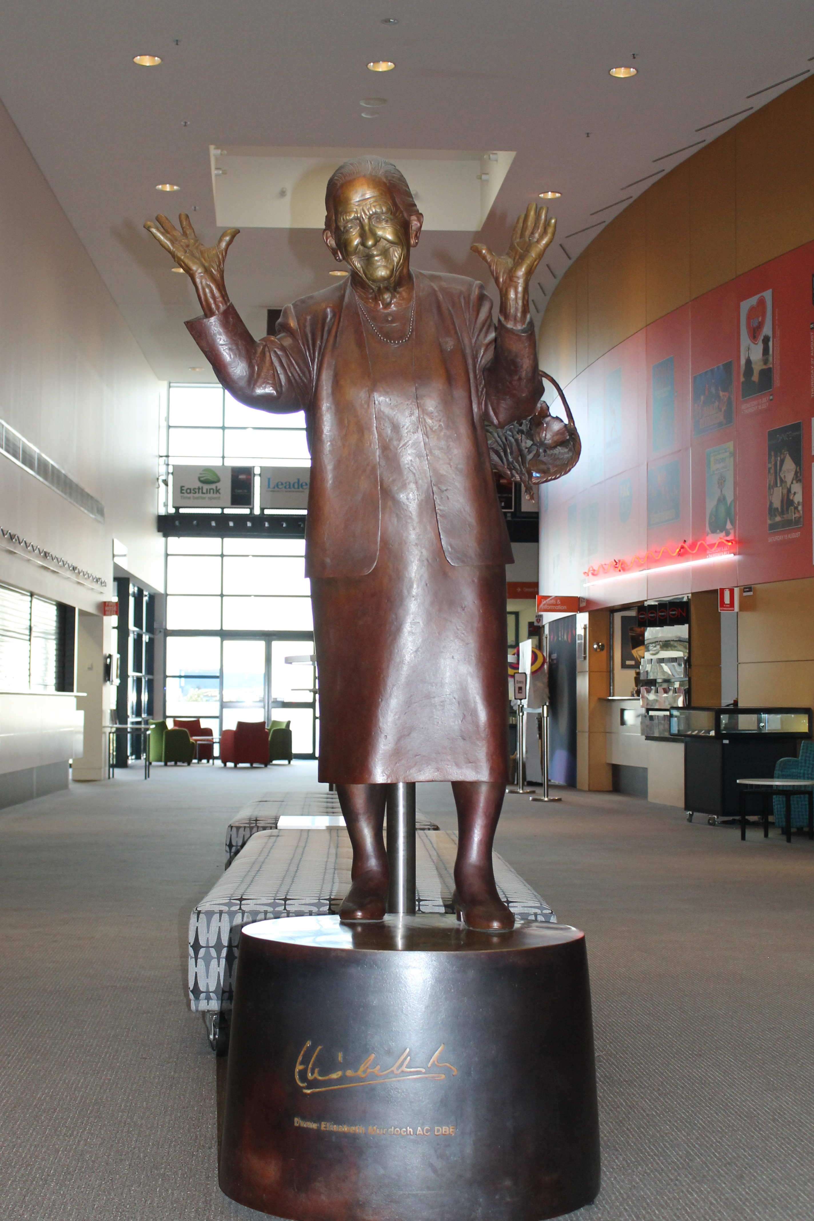 Sculpture of Dame Elisabeth Murdoch in the Frankston Arts Centre in Frankston, Victoria, Australia.